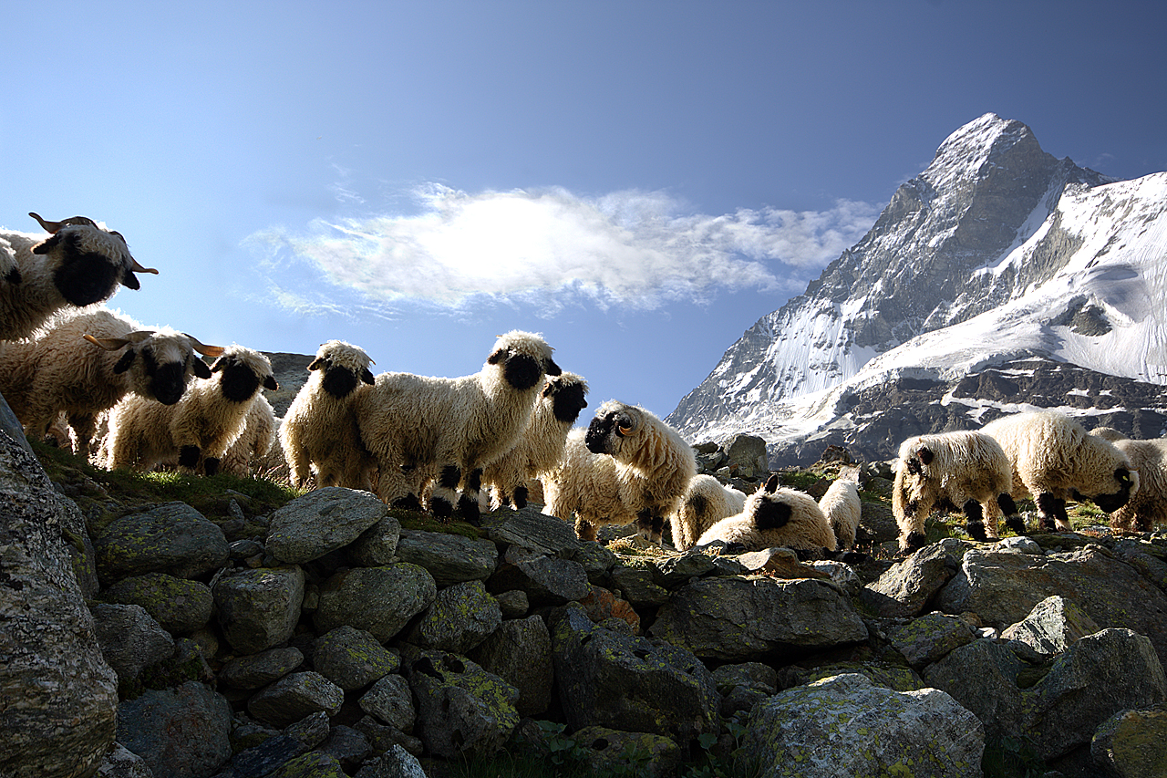 Sheeps with the Matterhorn in the background. (Taken during a trekking tour of the Mattertal in Valais, Switzerland, Summer 2009)